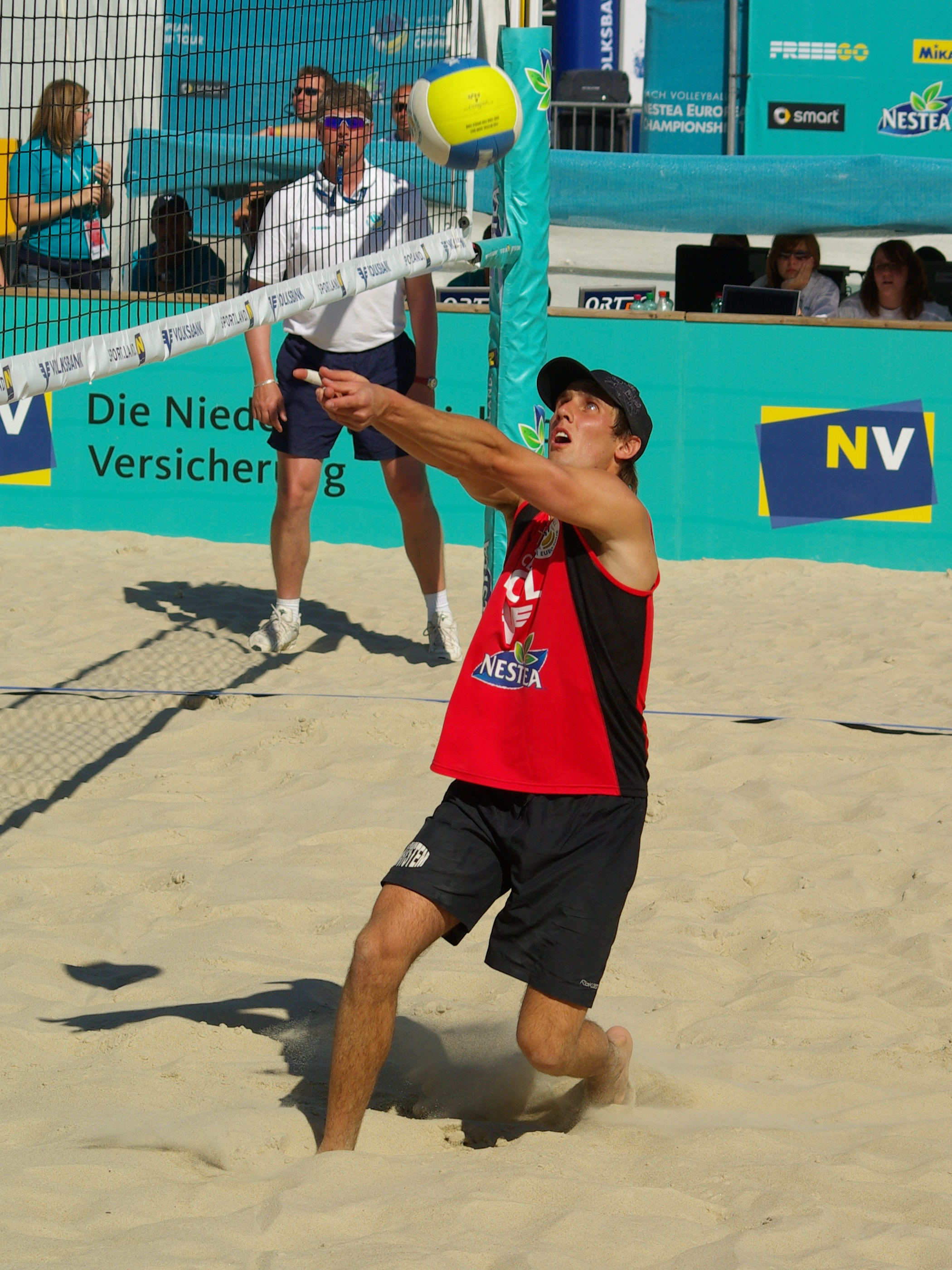 Polish Beach volleyball player Grzegorz Fijalek at the European Championship Tour 2008 Austrian Masters in St. Pölten.